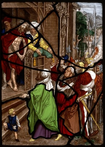 Ecce Homo, stained glass panel from Germany